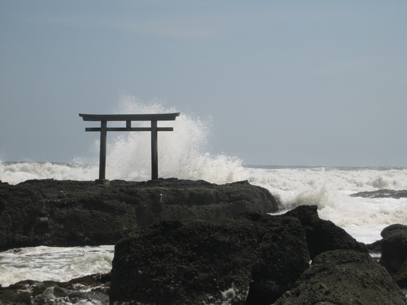 Oarai-Kamiiso-Torii